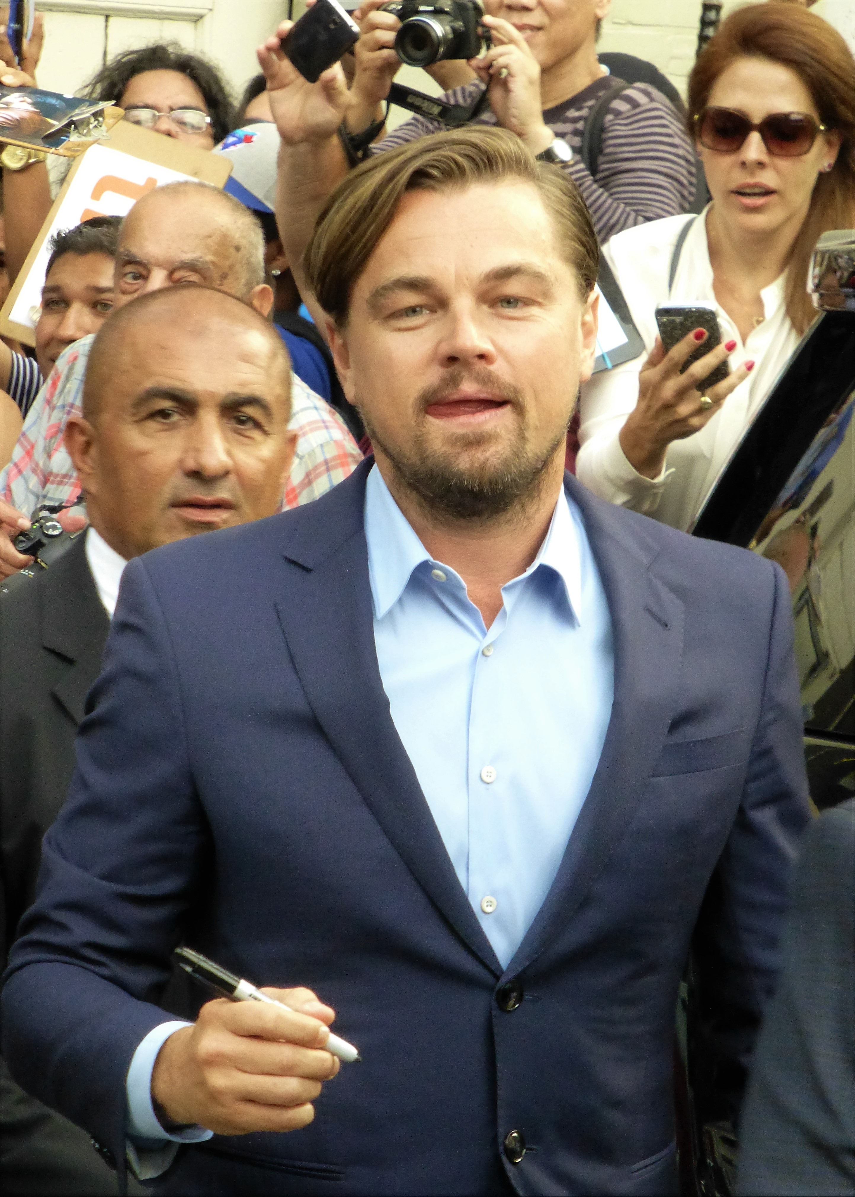 Tongue shot Leonardo DiCaprio at the premiere of Before the Flood, 2016 Toronto Film Festival